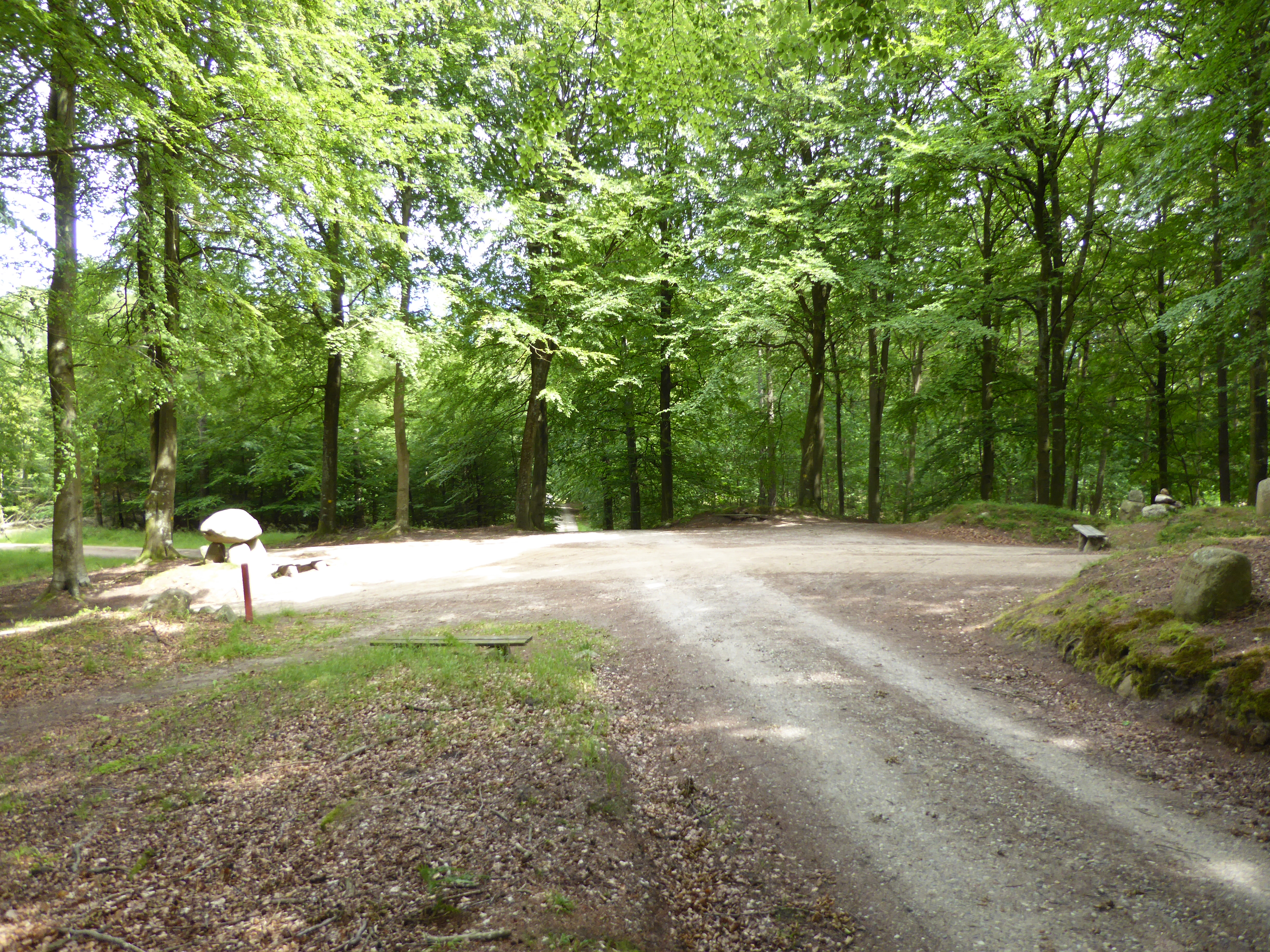 Ottevejskrydset in Gribskov, Denmark